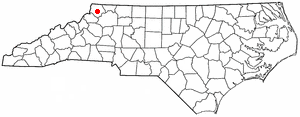 Category:North Carolina Dot Maps